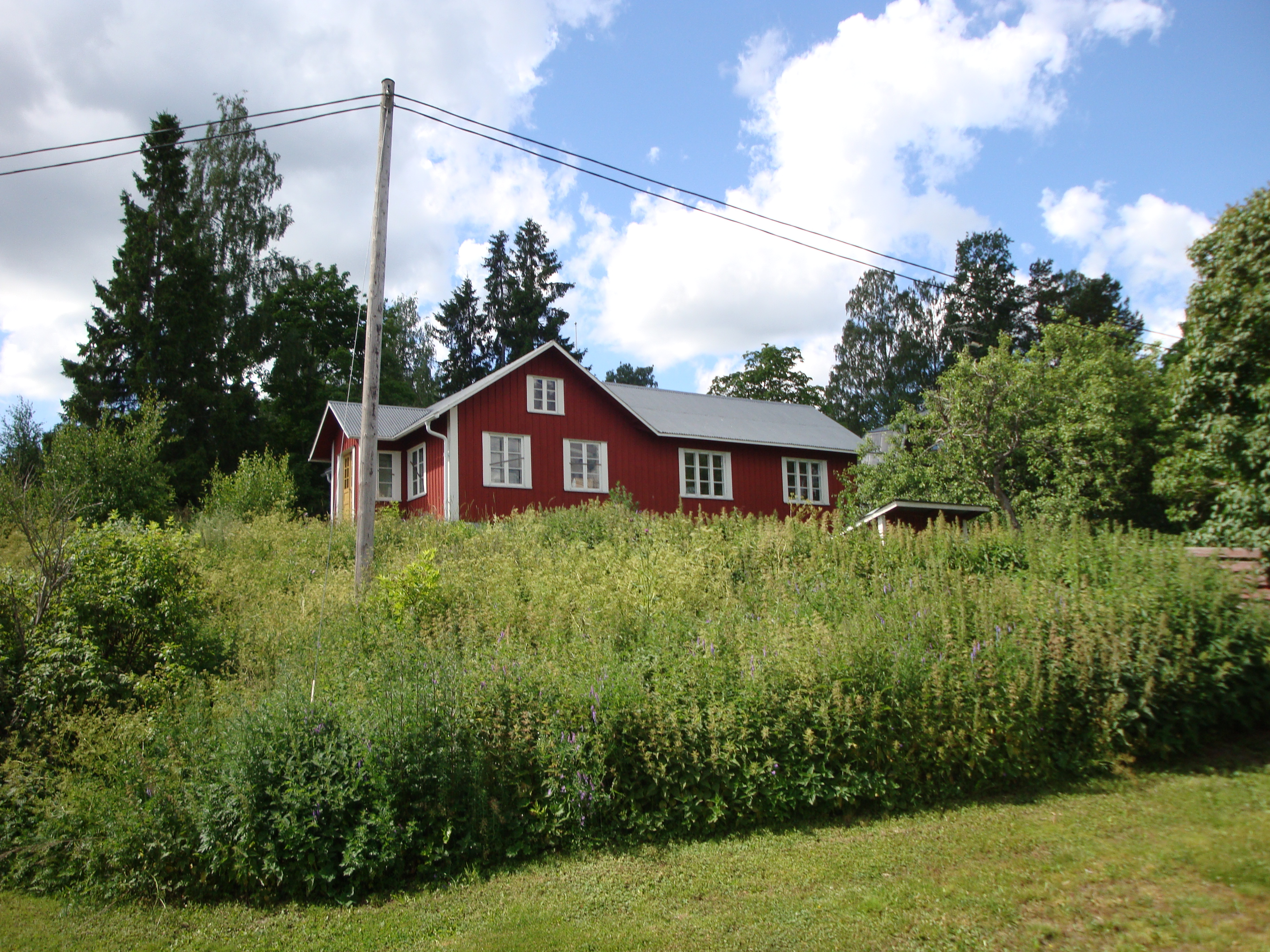 The former Kungsgårdens Tekniska fabrik factory in Kungsgården, Norrala, run by Georg Stjärnbrink.